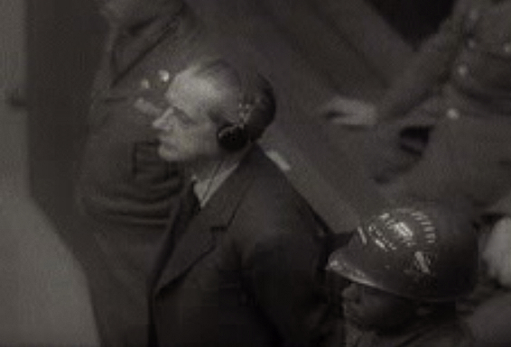 Ernst von Leyser (1889–1962), War Crimes Trials - Subsequent Trial Proceedings - Hostages Trial #7, Nuremberg, Germany. Sentencing Southeast Generals.